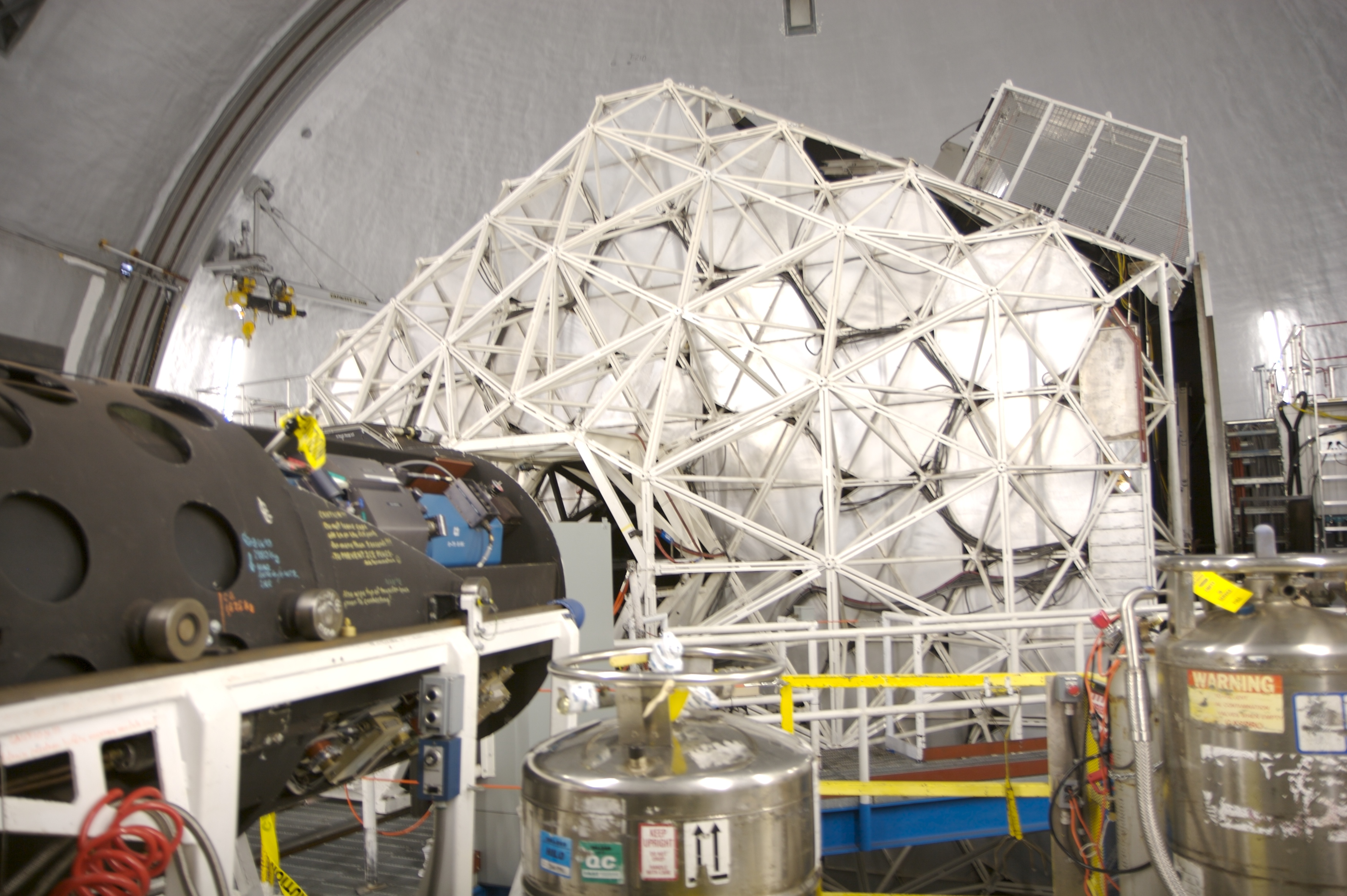 This is the rear of the primary mirror assembly. I believe the black tube in the foreground contains the CCD. The CCD is approximately 8x10, and is cooled in a dewar of liquid helium.